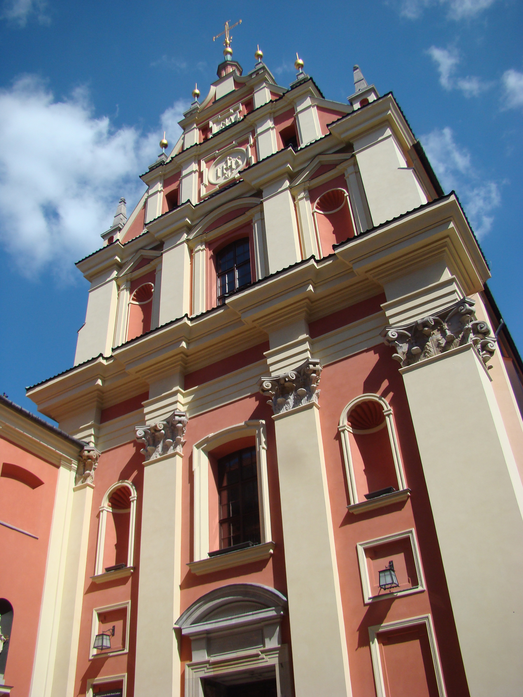 Old Town Jesuite church, Warsaw